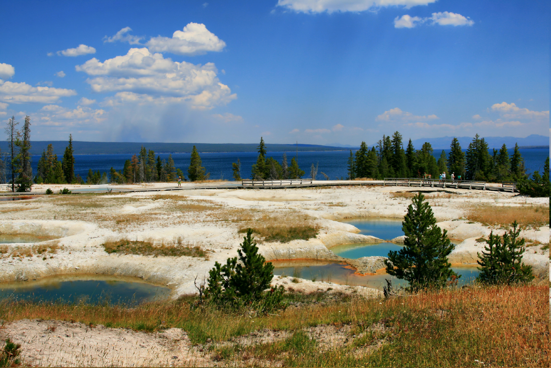 Yellowstone lake and West Thumb Geyser Basin in Yellowstone National Park